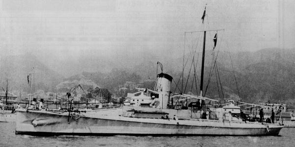 Japanese torpedo boat FUKURYU, at Sasebo Naval Base (inferred), ex-Chinese torpedo boat FULUNG.